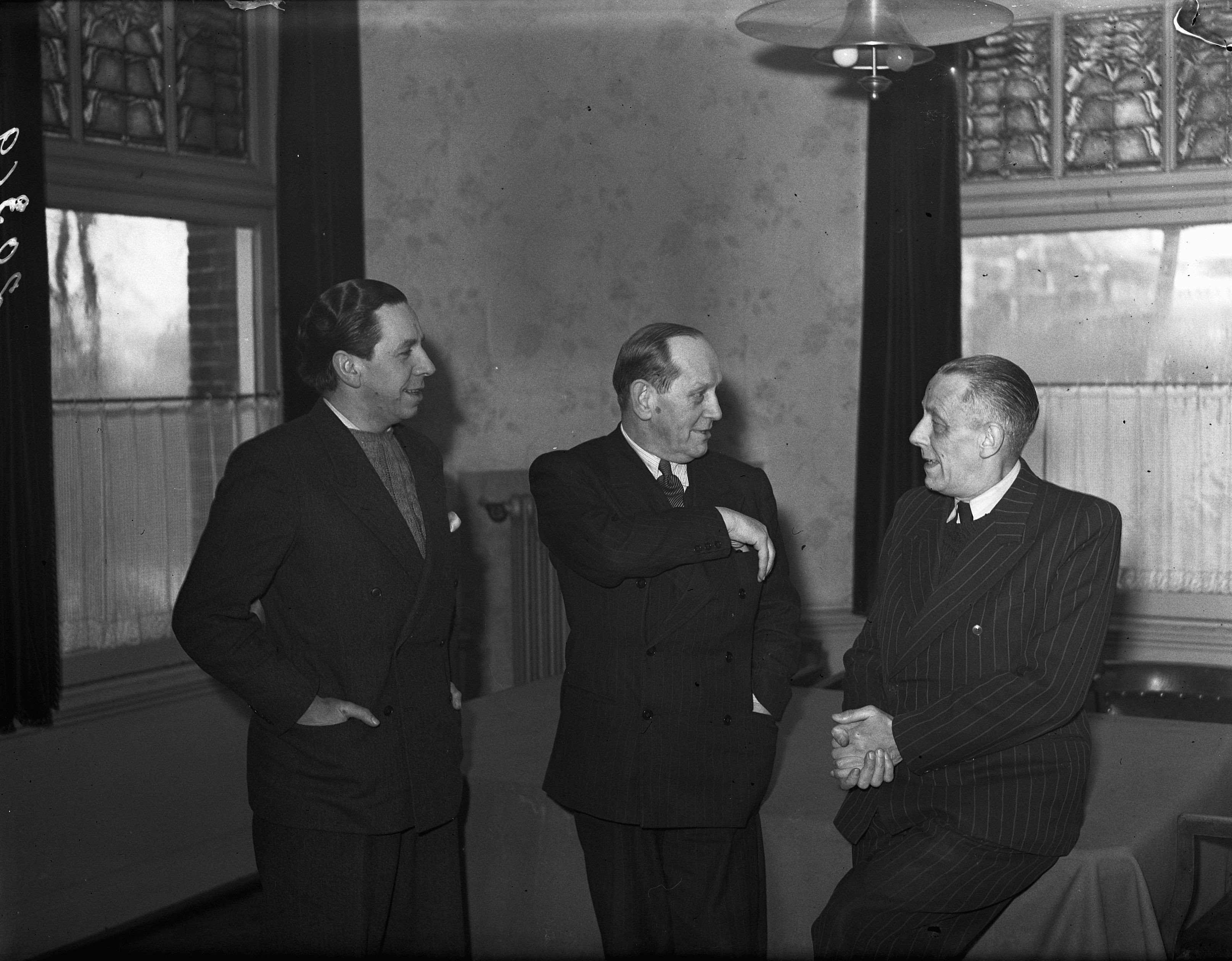 Russian theatre director Peter Sjarov (Pjotr Scharoff) visiting the Netherlands, 7 Febr. 1947. Left to right: Mr X, Peter Sjarov, Cor Hermus (Comedia). Sjarov would be involved in the staging of a Turgenjev play.